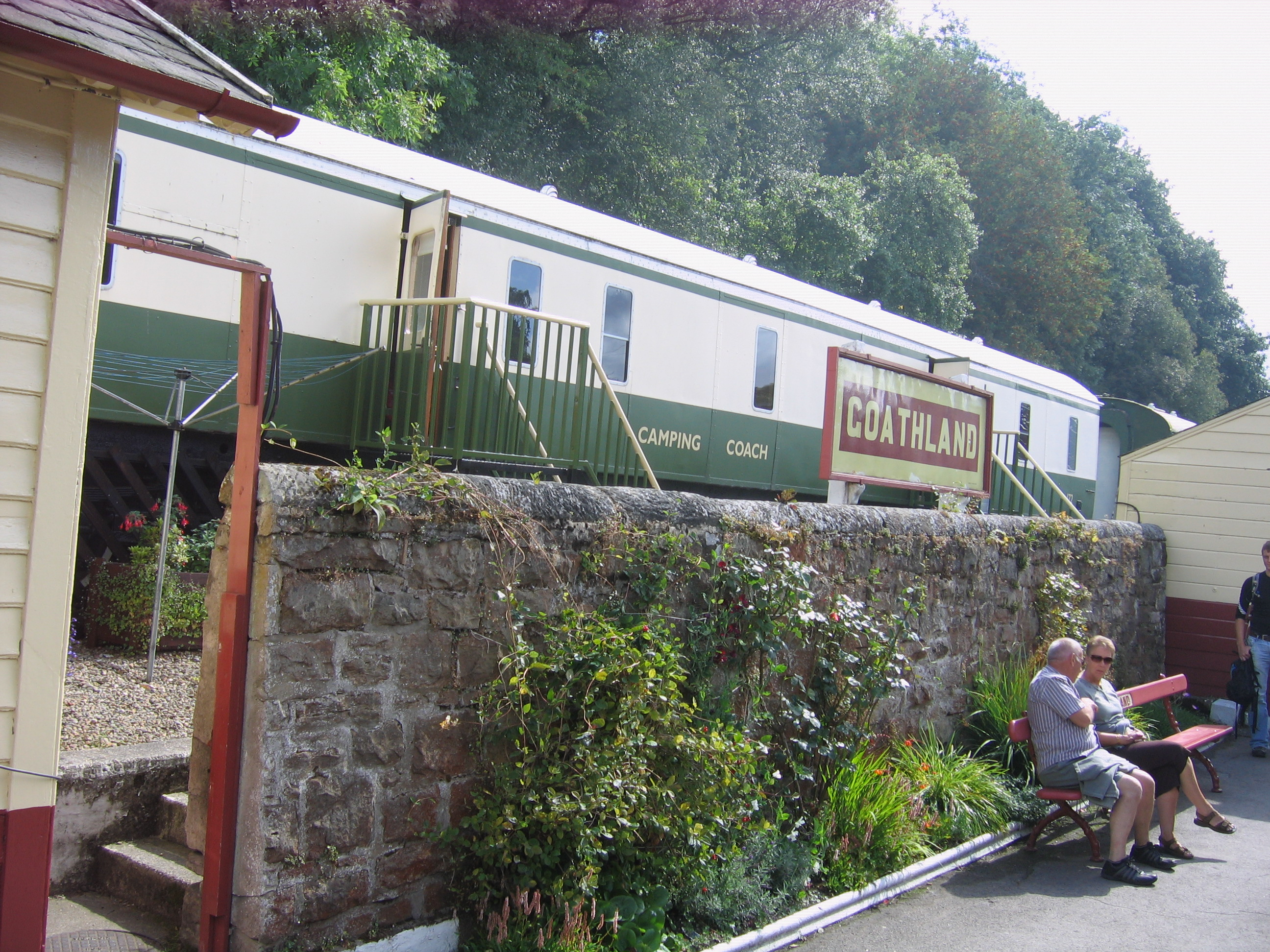 Camping coach in Goathland station